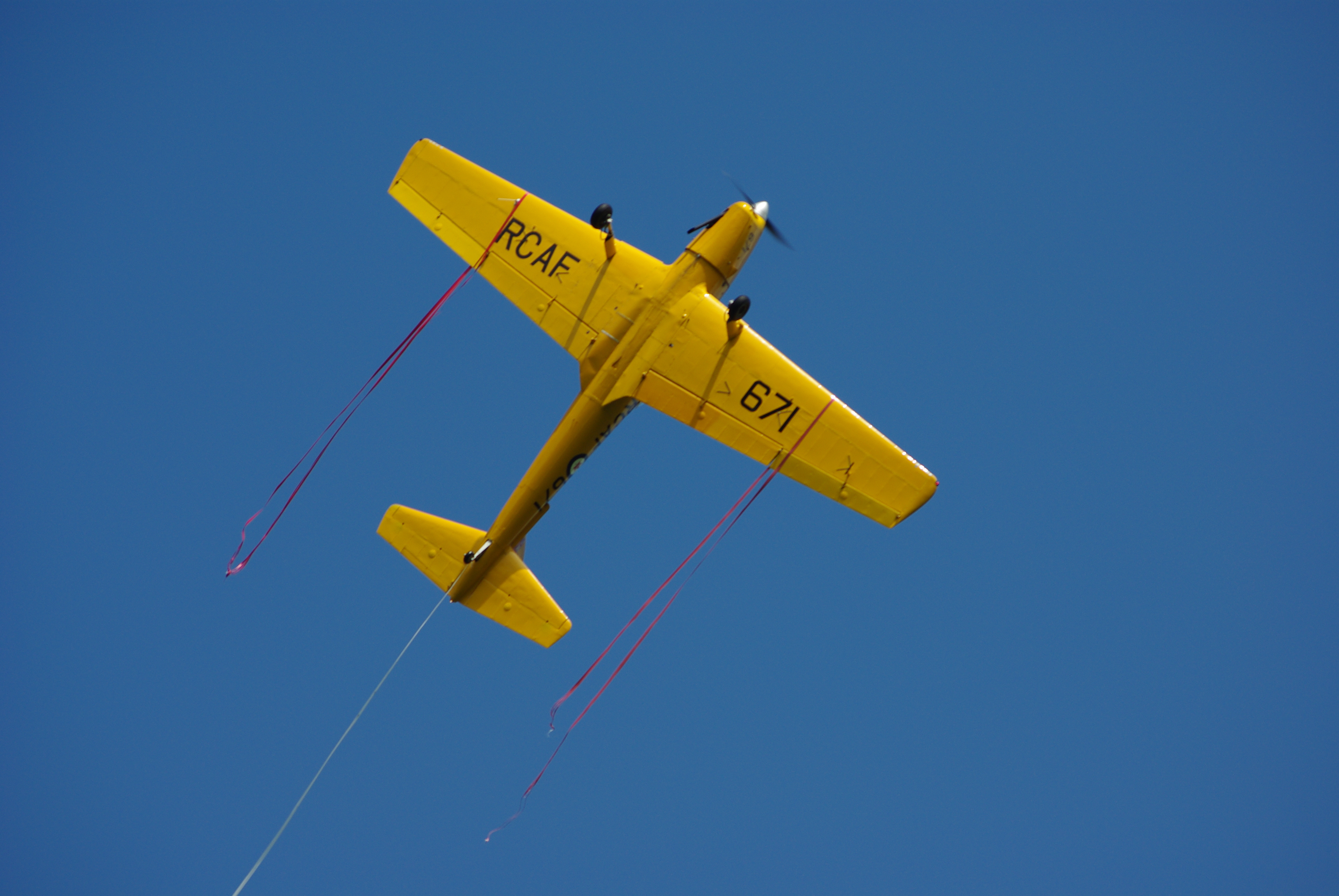 de Havilland Canada Chipmunk 22 at Old Warden 7 September 2008. The white ribbon is from a tail-chasing competition, the red ones picked up from the ground sequentially. She is painted up as RCAF serial 18671, is currently G-BNZC of the Shuttleworth collection and was WP905 from the Central Flying School.